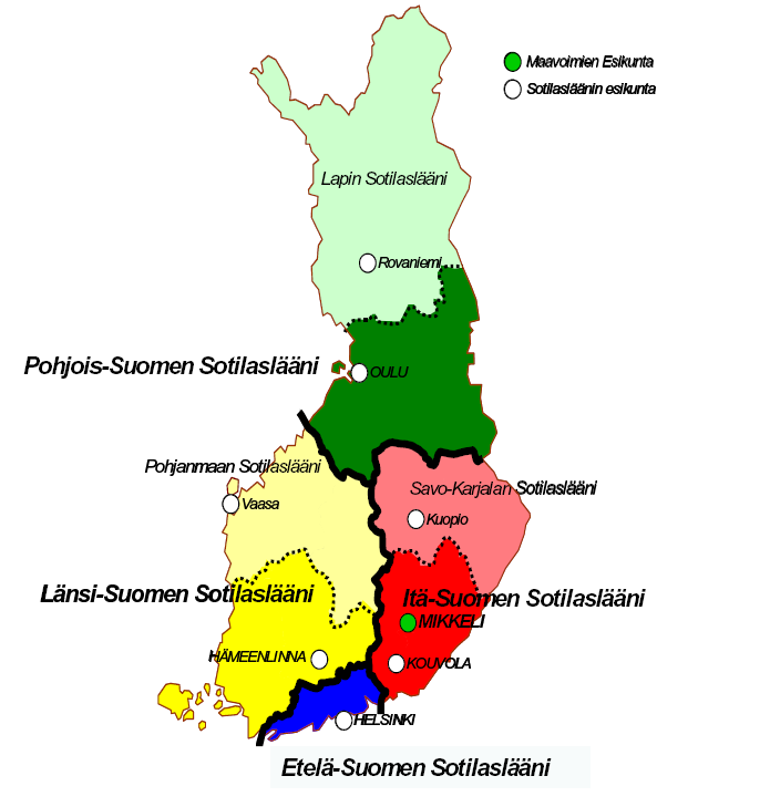 Finnish operative and territorial military provinces from the beginning of 2008